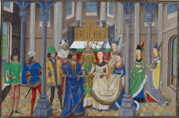 Marriage John I of Portugal and Philippa of Lancaster. (British Library, Royal 14 E IV f. 284)